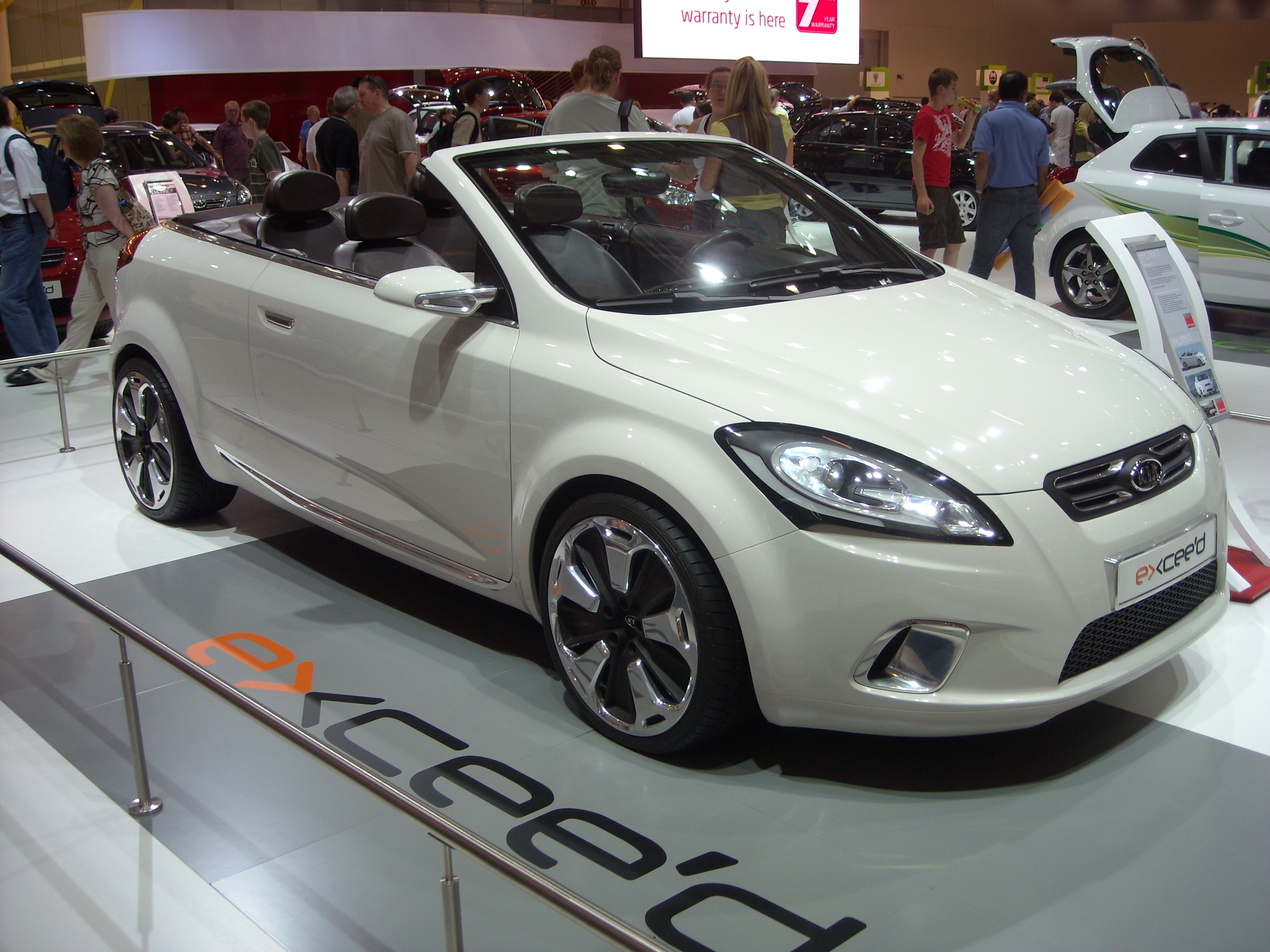 Kia ex_cee'd concept at the British Motor Show in July 2008.